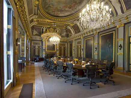 Empty Trêveszaal, Binnenhof, The Hague. The ceiling paintings are by Theodoor van der Schuer